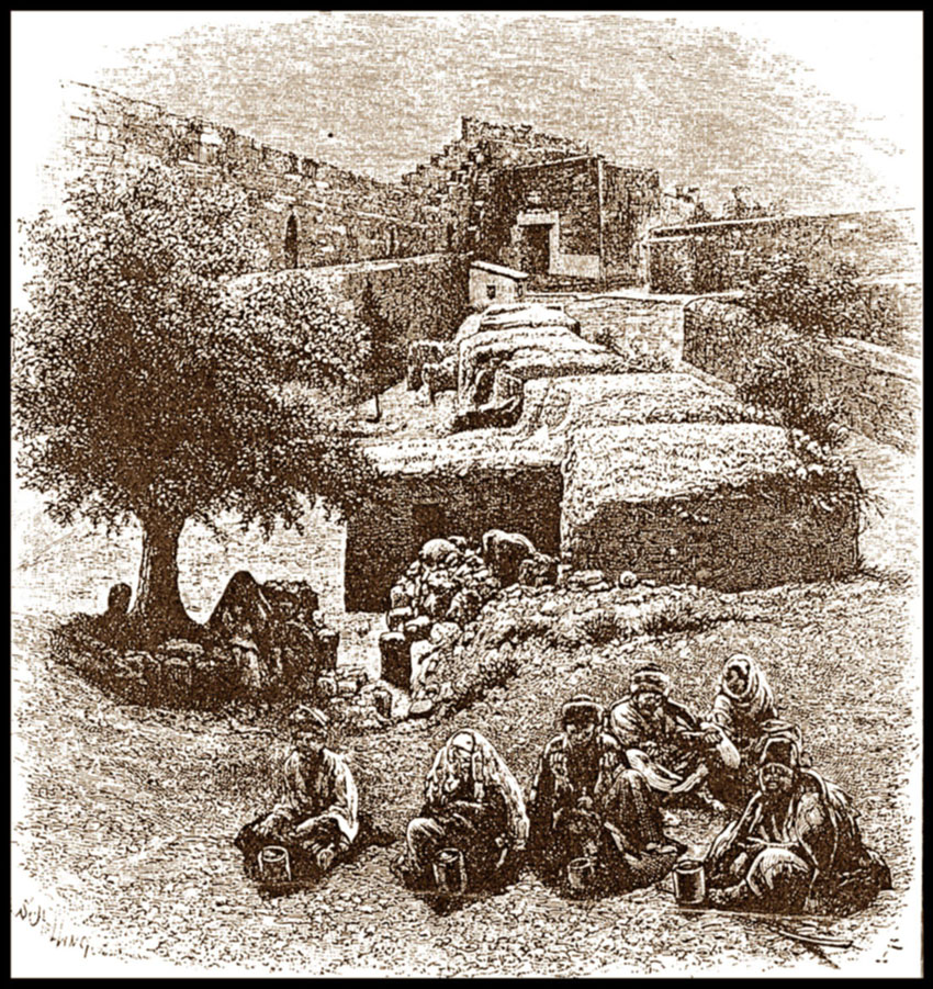 Lepper camp in Jerusalem